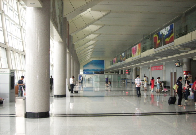 Inside the only terminal of Weihai Airport, Shandong Province, China